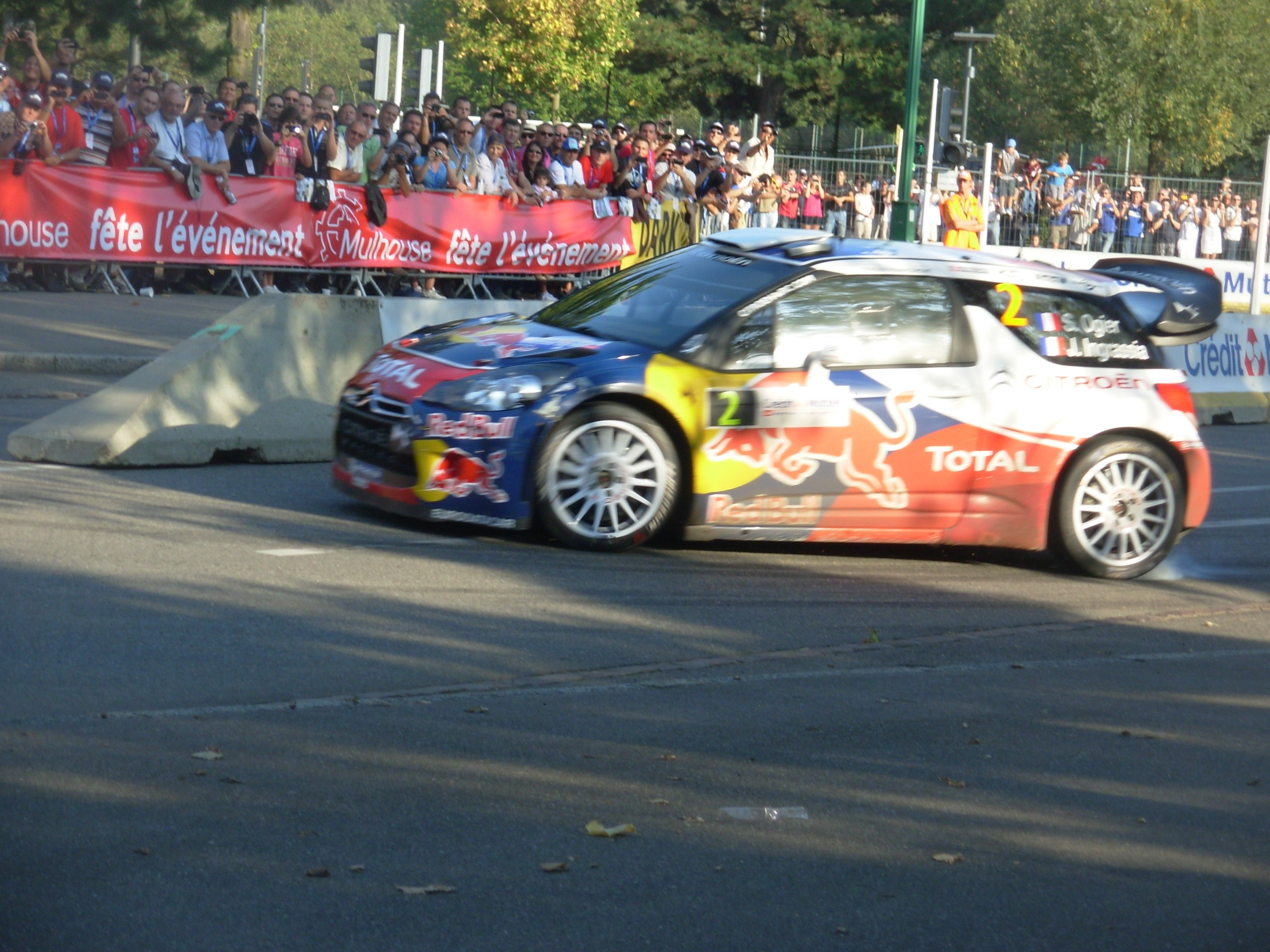 Citroën DS3 WRC from team Sébastien OGIER/Julien Ingrassia duging ES17 WRC-Rallye de France-Alsace at Mulhouse